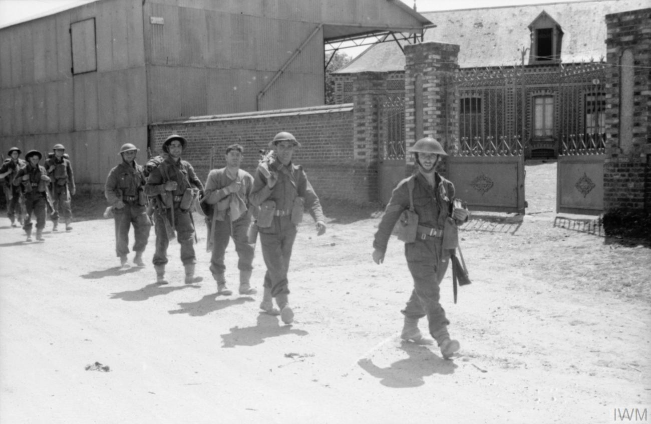 The British Army in France 1940 Men of the 7th Argyll and Sutherland Highlanders, 51st Highland Division, march into Millbosche, 8 June 1940.